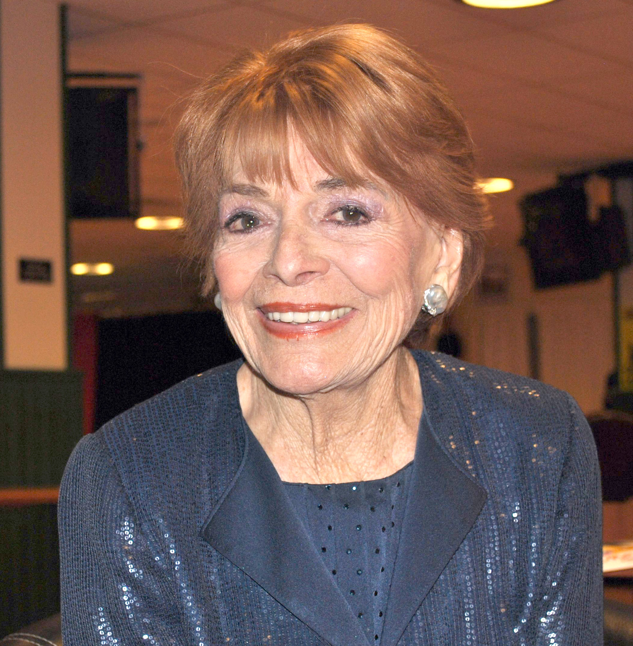 Lys Assia, the first winner of the Eurovision Song Contest, attended the annual meeting of Melodifestivalklubben in Sweden in 2012.